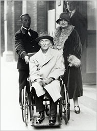 Frederick Delius with his wife Jelka Rosen in 1929. By this stage Delius was in a wheelchair due to the effects of third-stage syphilis.